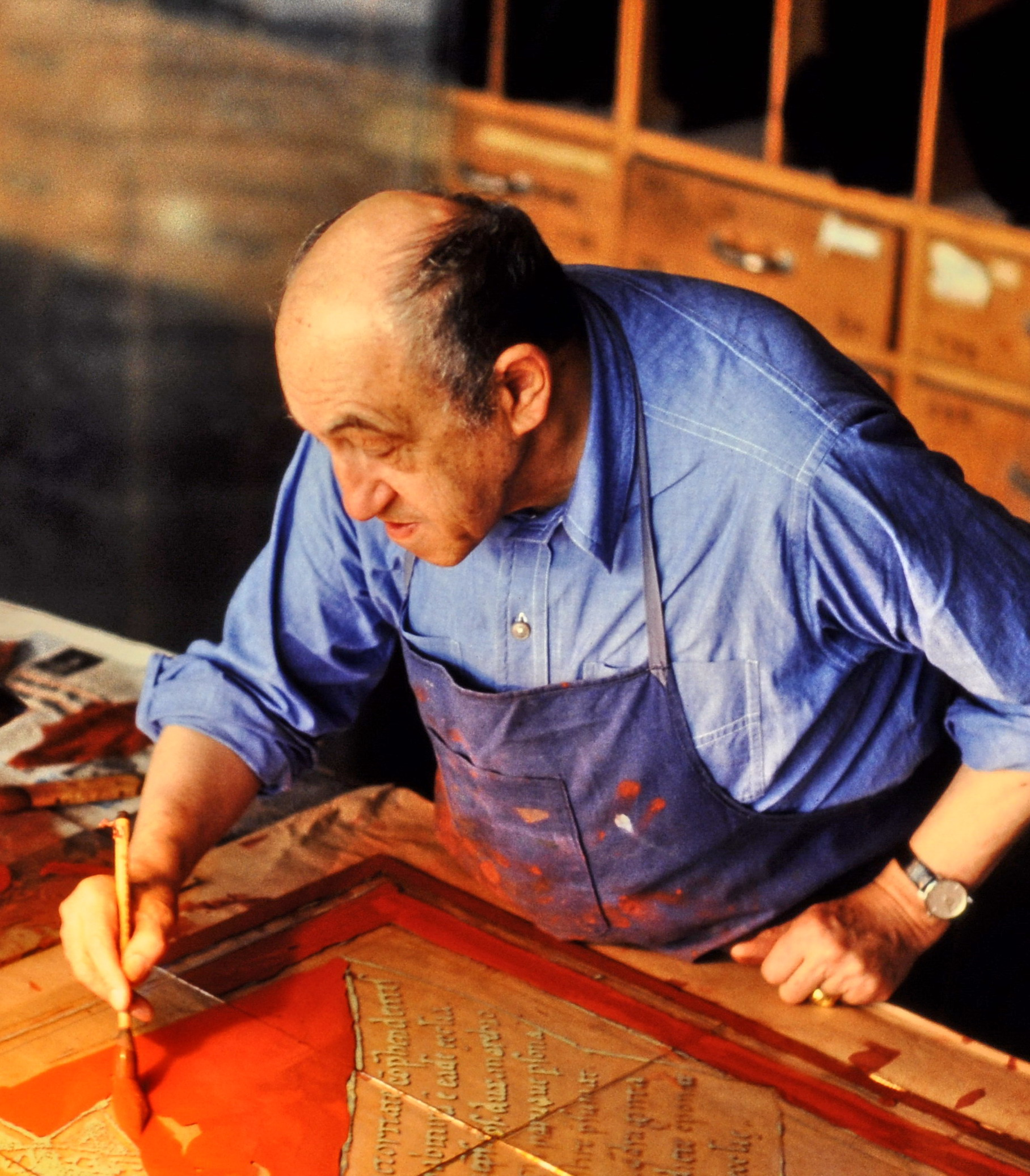 The painter on glass Josef Oberberger